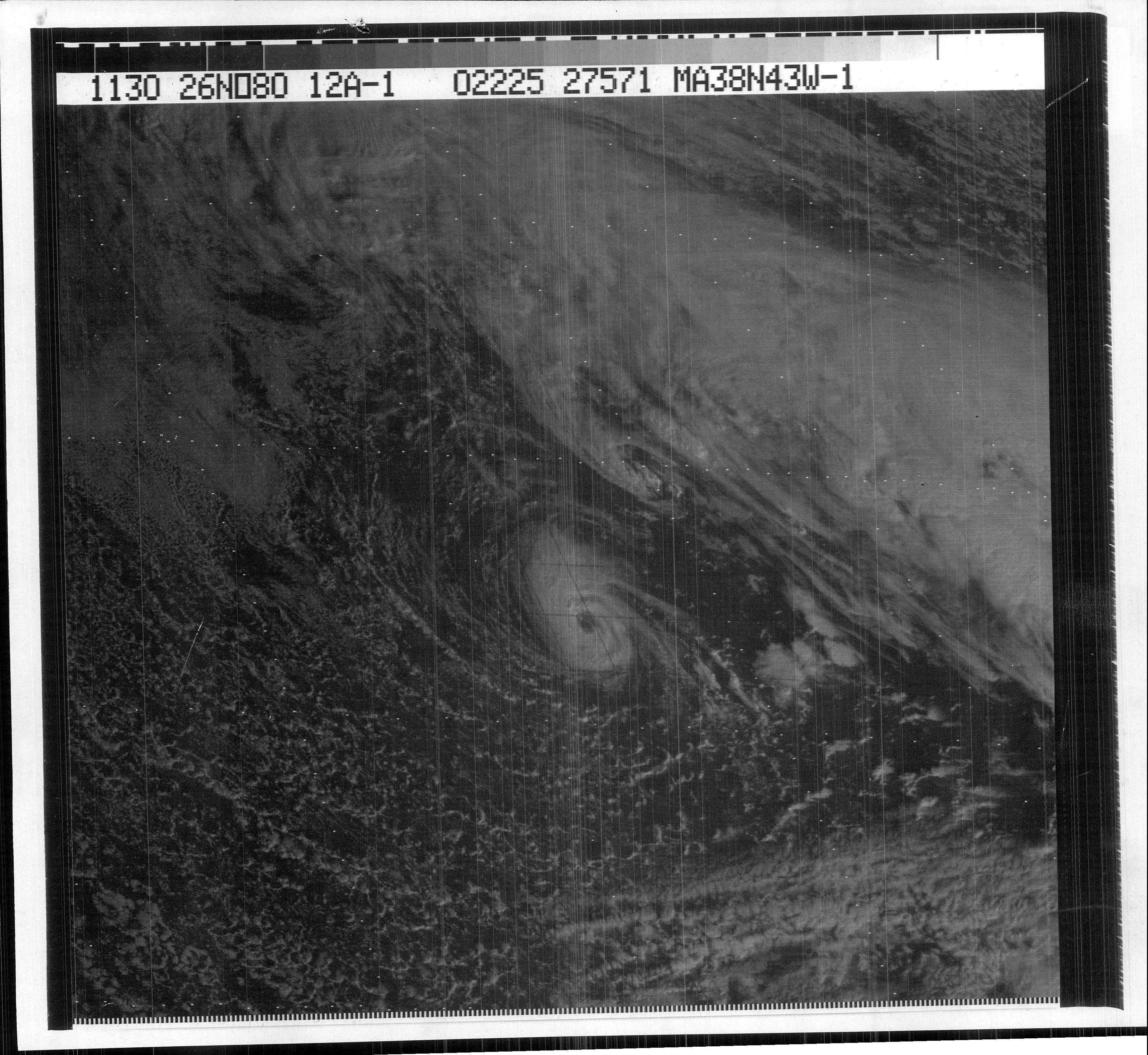 Hurricane Karl (1980) on November 26, 1980 seen from satellite imagery.